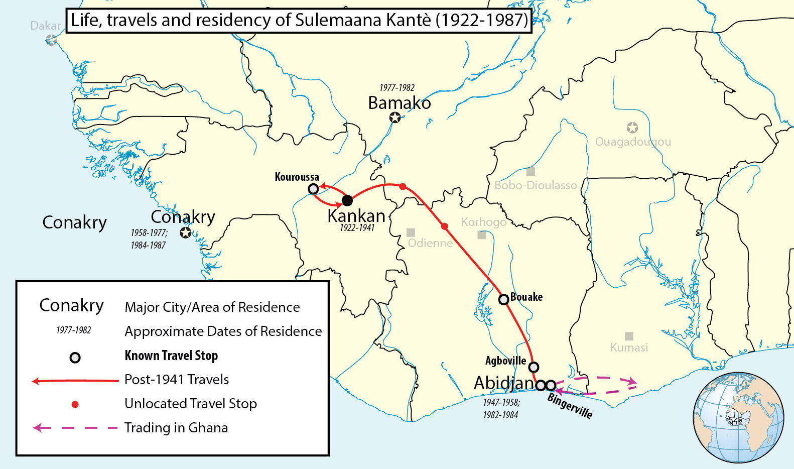 Approximate map of Kantè’s post-1941 travels and history of residence in West Africa. Originally appeared in the following: Donaldson, Coleman. 2017. “Clear Language: Script, Register and the N’ko Movement of Manding-Speaking West Africa.” Doctoral Dissertation, Philadelphia, PA: University of Pennsylvania. Philadelphia, PA. Created with data from the following sources: Amselle, Jean-Loup. 2003. “Peut-on être musulman sans être arabe? : A propos du N’ko malinké d’Afrique de l’Ouest.” In Islam et villes en Afrique au sud du Sahara: entre soufisme et fondamentalisme, edited by Adriana Piga and Costanza Ventura, 257–69. Paris: Karthala. Kántɛ, Sùlemáana. 1968. Ɲìninkalibá’ 5 n’à jáabi’ ߢߌ߬ߣߌ߲߬ߞߊ߬ߟߌ߬ߓߊ ߅ ߣߴߊ߬ ߖߊ߯ߓߌ [Five Big Questions and Their Answer]. Edited by Bàbá Màmádi Jàanɛ. Oyler, Dianne White. 2005. The History of the N’ko Alphabet and Its Role in Mandé Transnational Identity: Words as Weapons. Cherry Hill, NJ: Africana Homestead Legacy Publishers. Sangaré, Mahmoud. 2011. Jón yé Sòlomána Kántɛ́ dí? ߖߐ߲߫ ߧߋ߫ ߛߟߏ߬ߡߣߊ߫ ߞߊ߲ߕߍ߫ ߘߌ߫؟ [Who Is Sulemaana Kantè?]. Bamako, Mali.